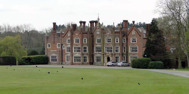 Great Witchingham Hall. Geograph photograph spun to vertical, cropped to 2:1 to reduce excessive and uninteresting sky and lawn. Make the building more significant/larger and closer to the viewer within the photo without significantly reducing overall width. Make the base and roof line of building fit roughly to rule of thirds. Optimized to reduce yellow-green cast, and add contrast and sharpness.